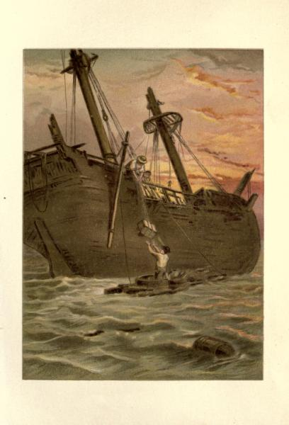 Color illustration in book The Swiss Family Robinson